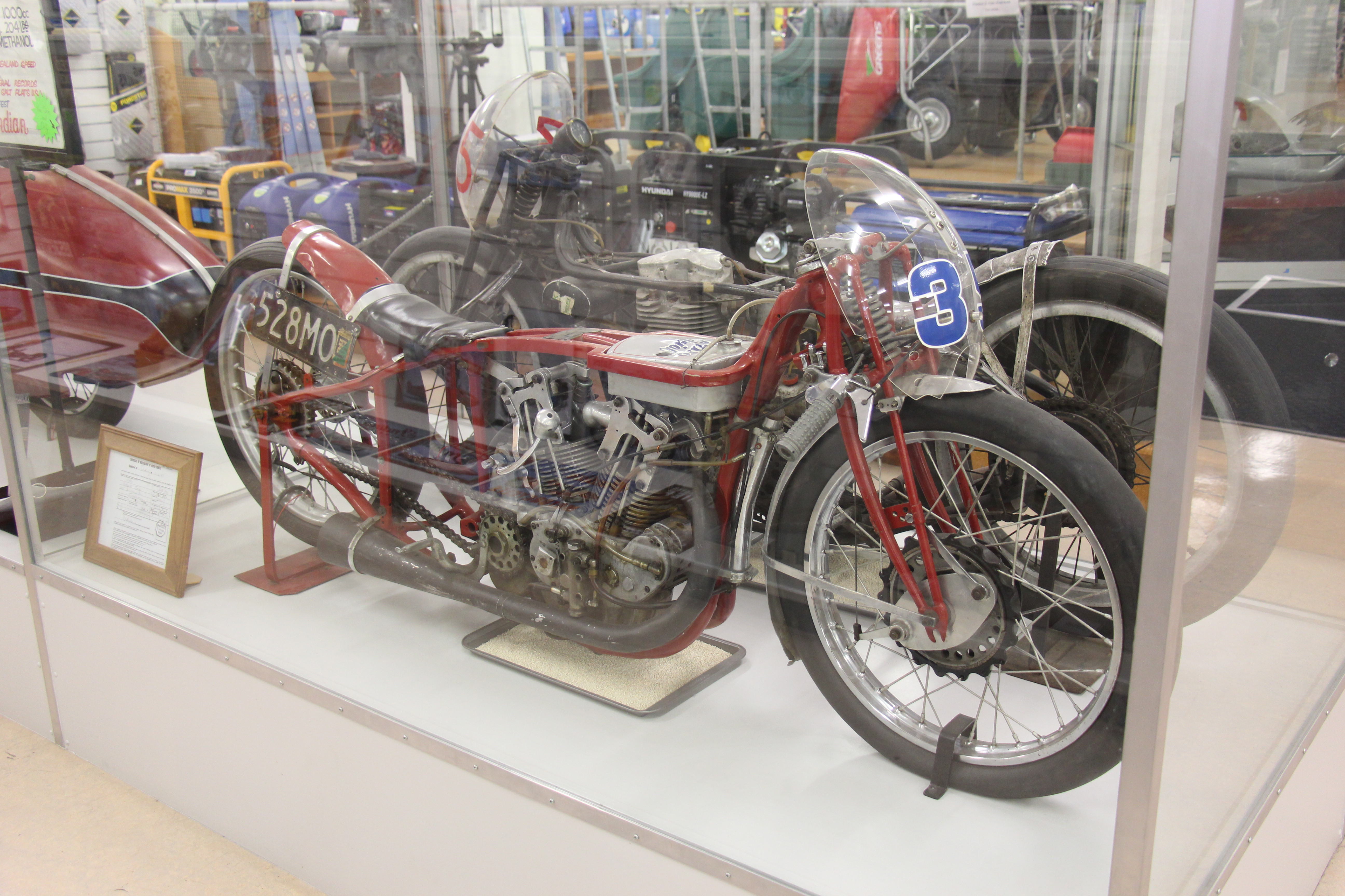 This is not a replica from the movie, the Worlds Fastest Indian, this is the actual bike that Burt Munro built and broke that Land Speed Record for motorcycles under 1000cc. Back in the 50s, a New Zealand man named Burt Munro wanted to see how fast he could go on a motorcycle. He started off with a 1920 Indian Scout and in his Invercargill shed, way down in the South of New Zealand, highly modified the motorcycle, the 600cc engine ended up nearly 1000cc and ran on methanol. He held many New Zealand speed records, eventually taking it to the Bonneville Salt Flats in the US and broke the land speed record for motorcycles with engines under 1000cc 20 August 1962: 883 cc class record of 178.971 mph. 22 August 1966: 1,000 cc class record of 168.066 mph. 26 August 1967: 1,000 cc class record of 183.586 mph. His basic story was used in the 2005 movie the Worlds Fastest Indian starring Anthony Hopkins as Burt Munro. Behind this bike, in the same showcase is his earlier record breaking bike, his 1936 Velocette 500cc, now 650cc, 12.2 second qtr mile at 138.8 mph, probably the worlds fastest Velocette! Photographed in Invercargill, New Zealand